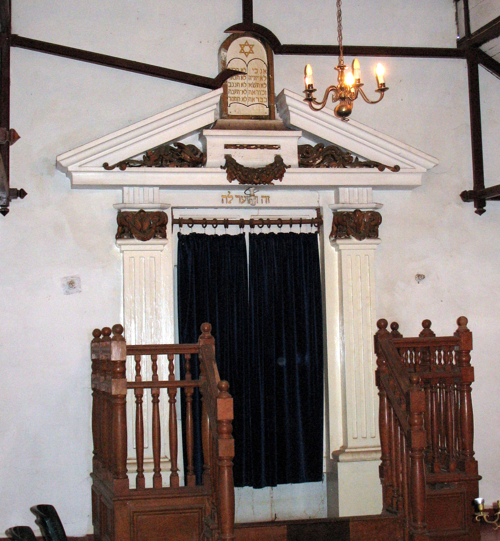 Interior of Maputo's synagogue, Maputo, Mozambique